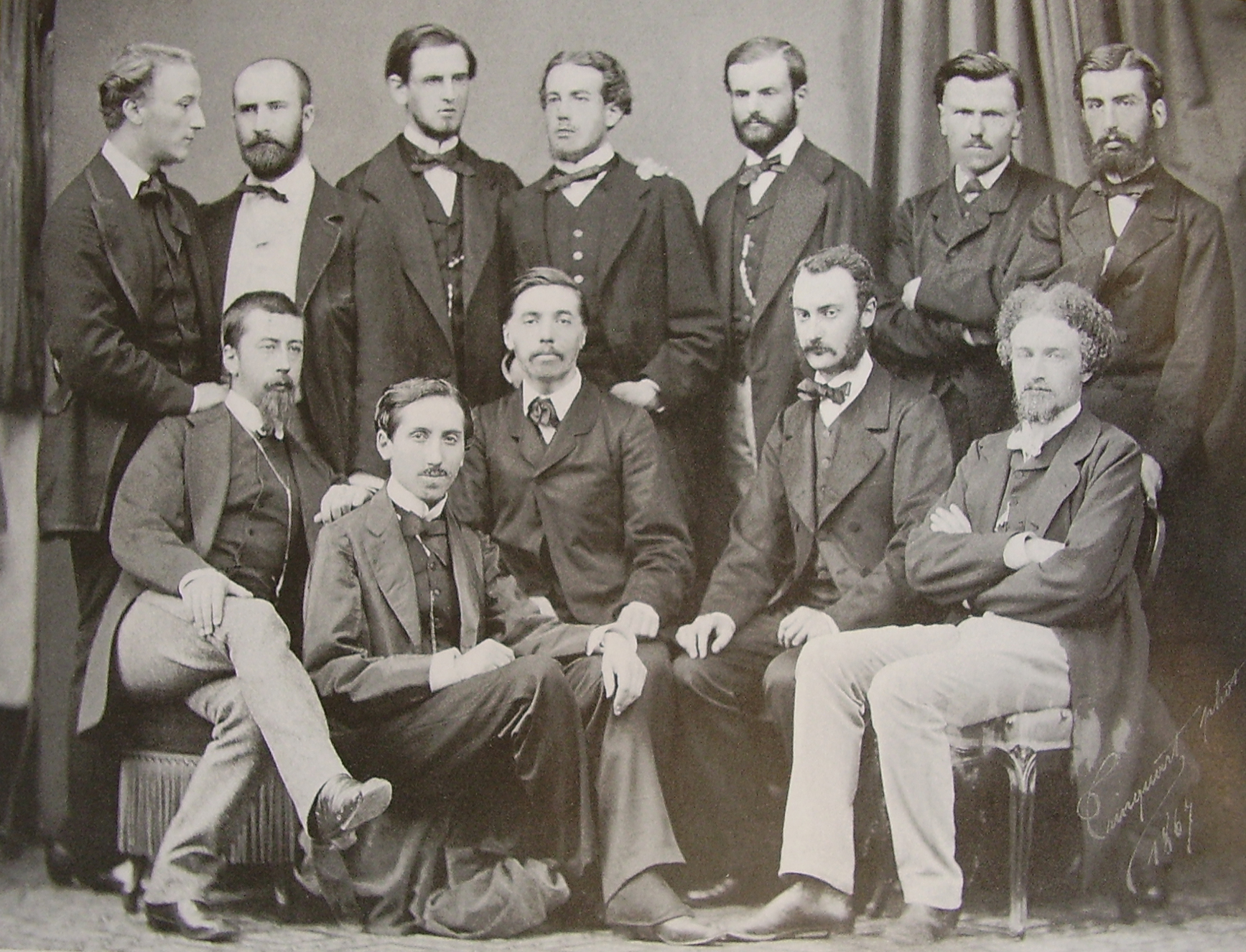 Pupils of the Ecole des chartes (Paris) in 1867